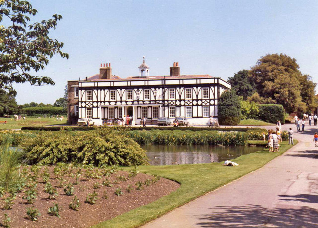 Broomfield House Original description: Broomfield House, Palmers Green, London N13 Broomfield House taken in 1981 before the disastrous fires, which destroyed most of the fabric of the house.